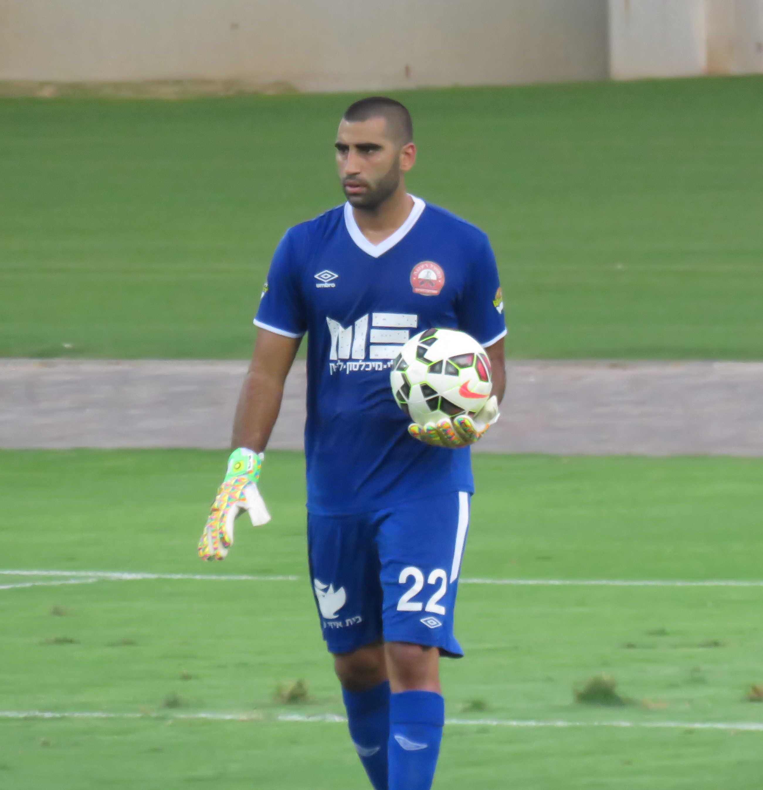 Hapoel Ra'anana vs. Hapoel Be'er Sheva - September 12, 2015